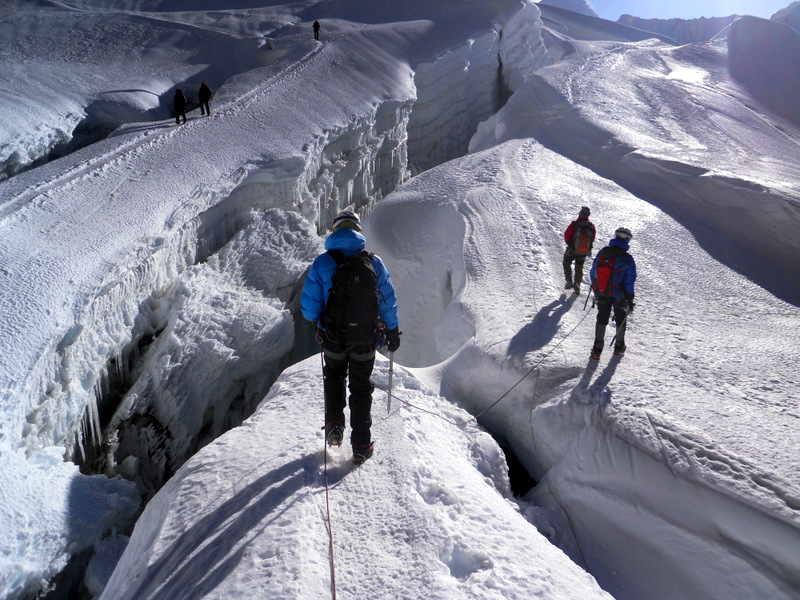 Negotiating crevasses along the route to the summit of Imja Tse. Photo by Alonzo Lyons.